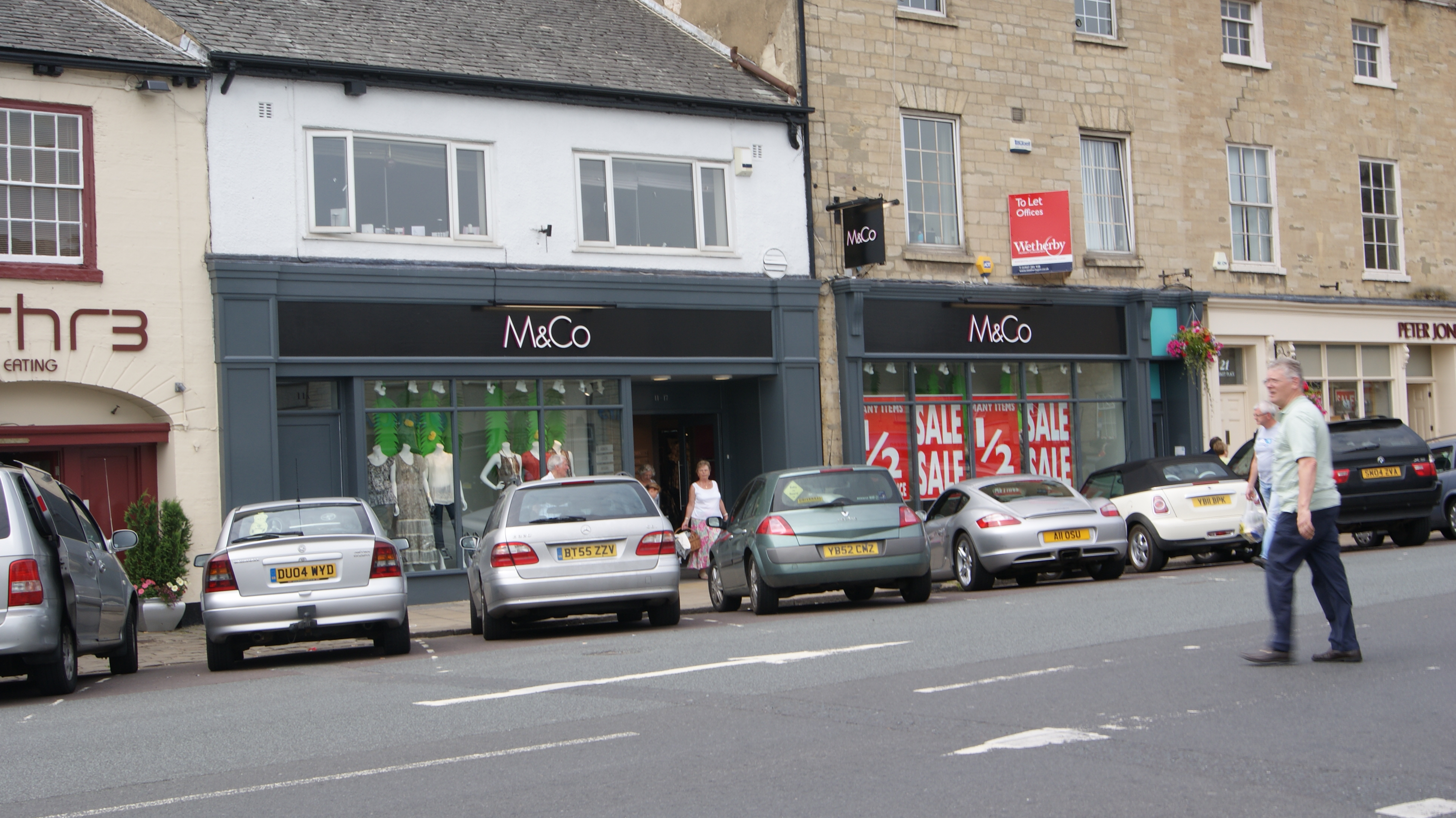 M&Co, Market Place, Wetherby, West Yorkshire. Taken on the afternoon of Monday the 4th July 2011.